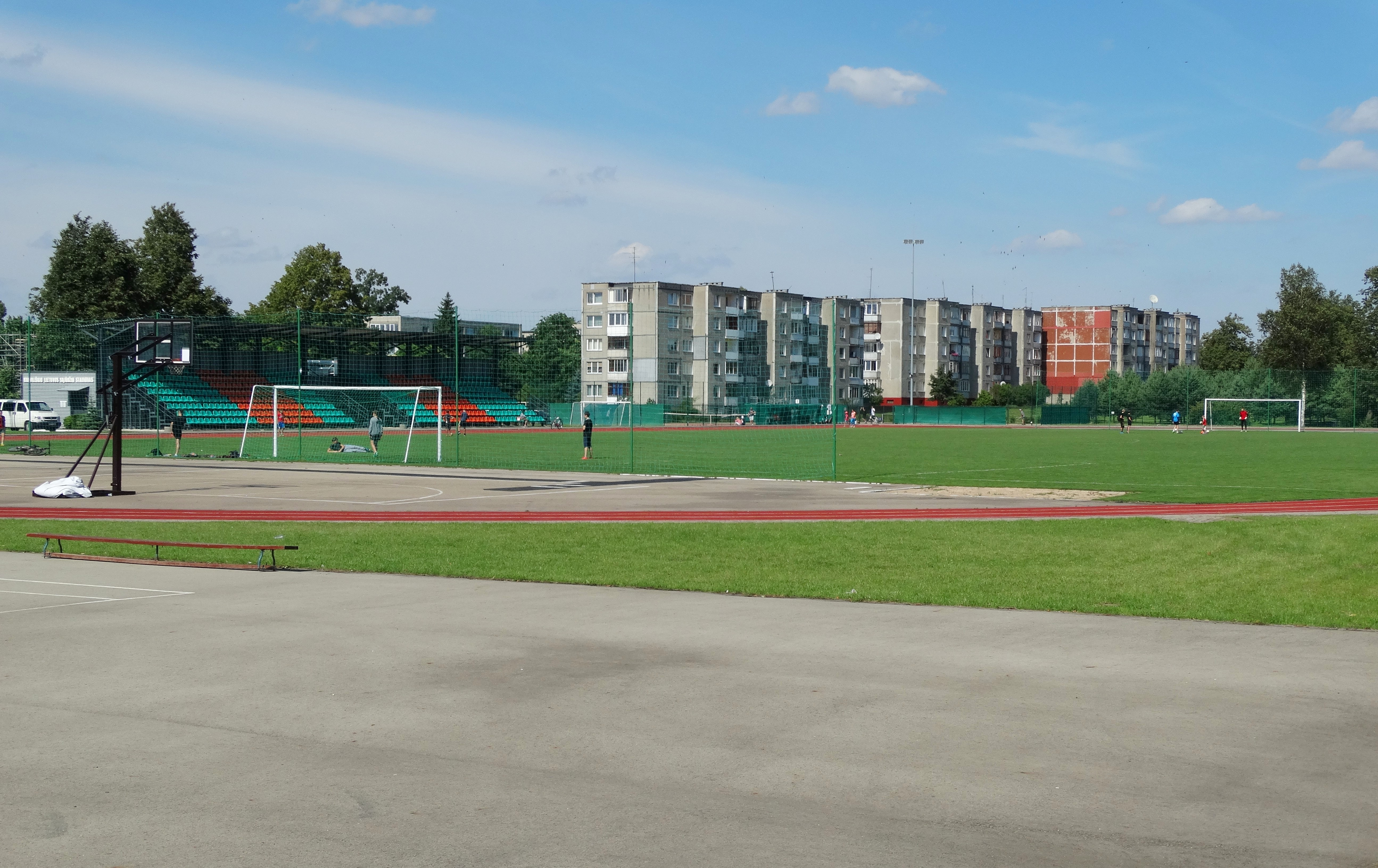 Central stadium, Radviliškis, Lithuania